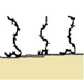 The adhesion of BSM to a surface